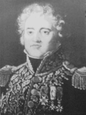 Jacques_Pierre_Louis_Marie_Joseph_Puthod. WARNING: This picture is also used for the Henri Rottembourg article!